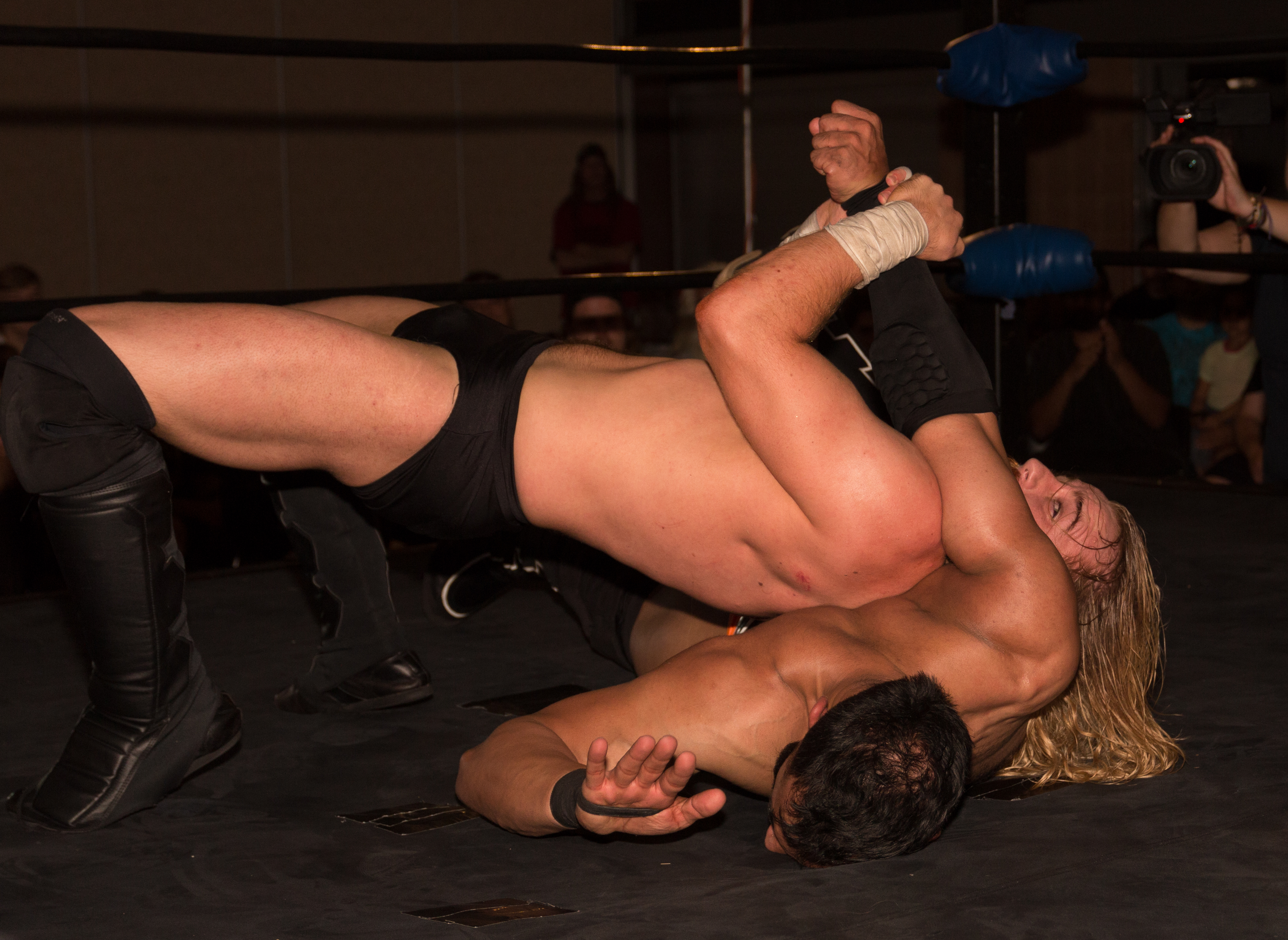 Mark Haskins (top) applying his Bridging Fujiwara arm bar on Tarik (formerly Alex Vega)